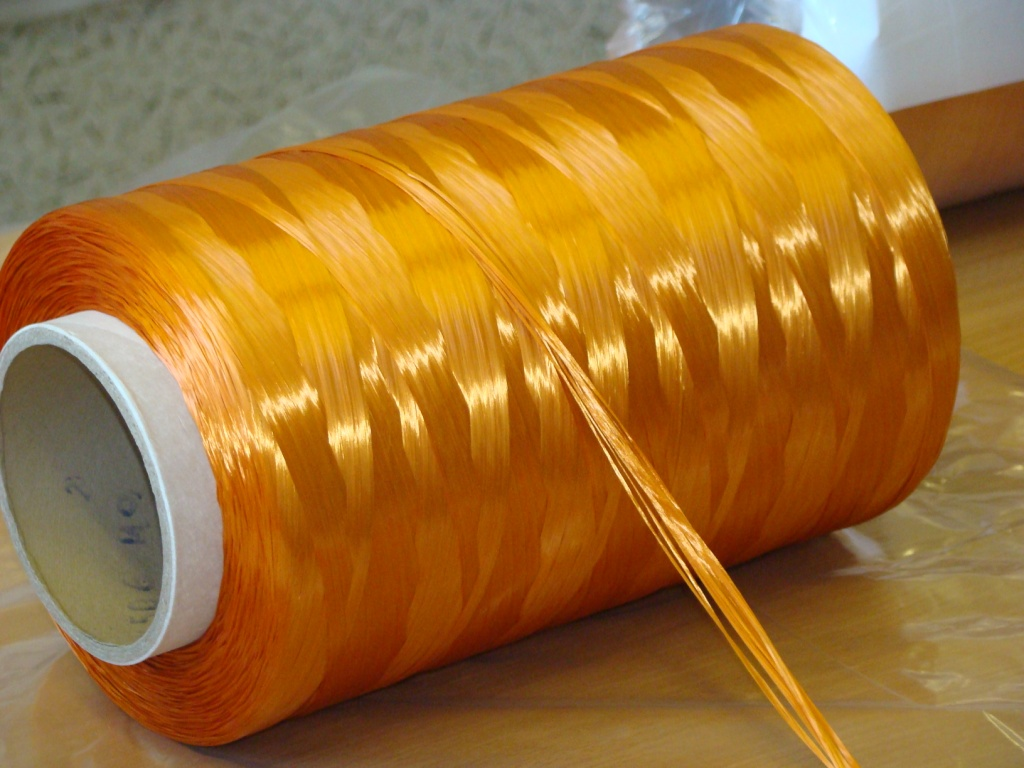 Arselon filament yarn UV-Stabilized